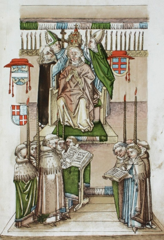 Crowning of the pope Martin V in Constance on 11. november 1417